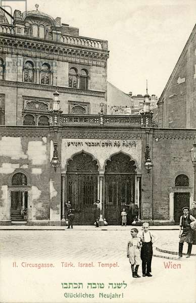 Turkisher Tempel - old postcard